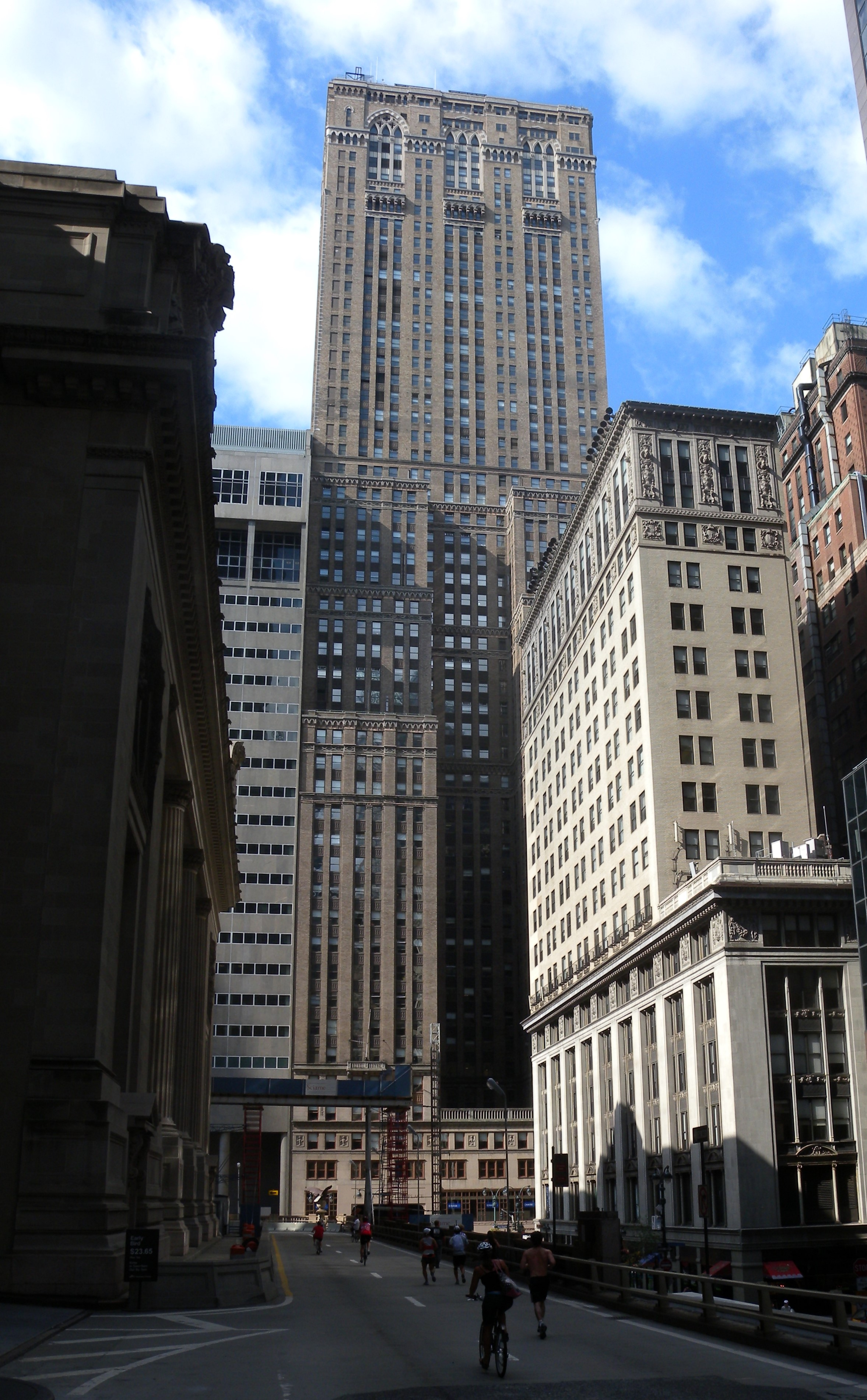 Looking southwest from the GCT Park Avenue Viaduct at former Lincoln Building on a sunny morning.